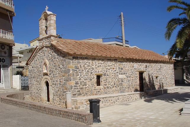 Agios Dimitrios church in Magoula, Attica, Greece